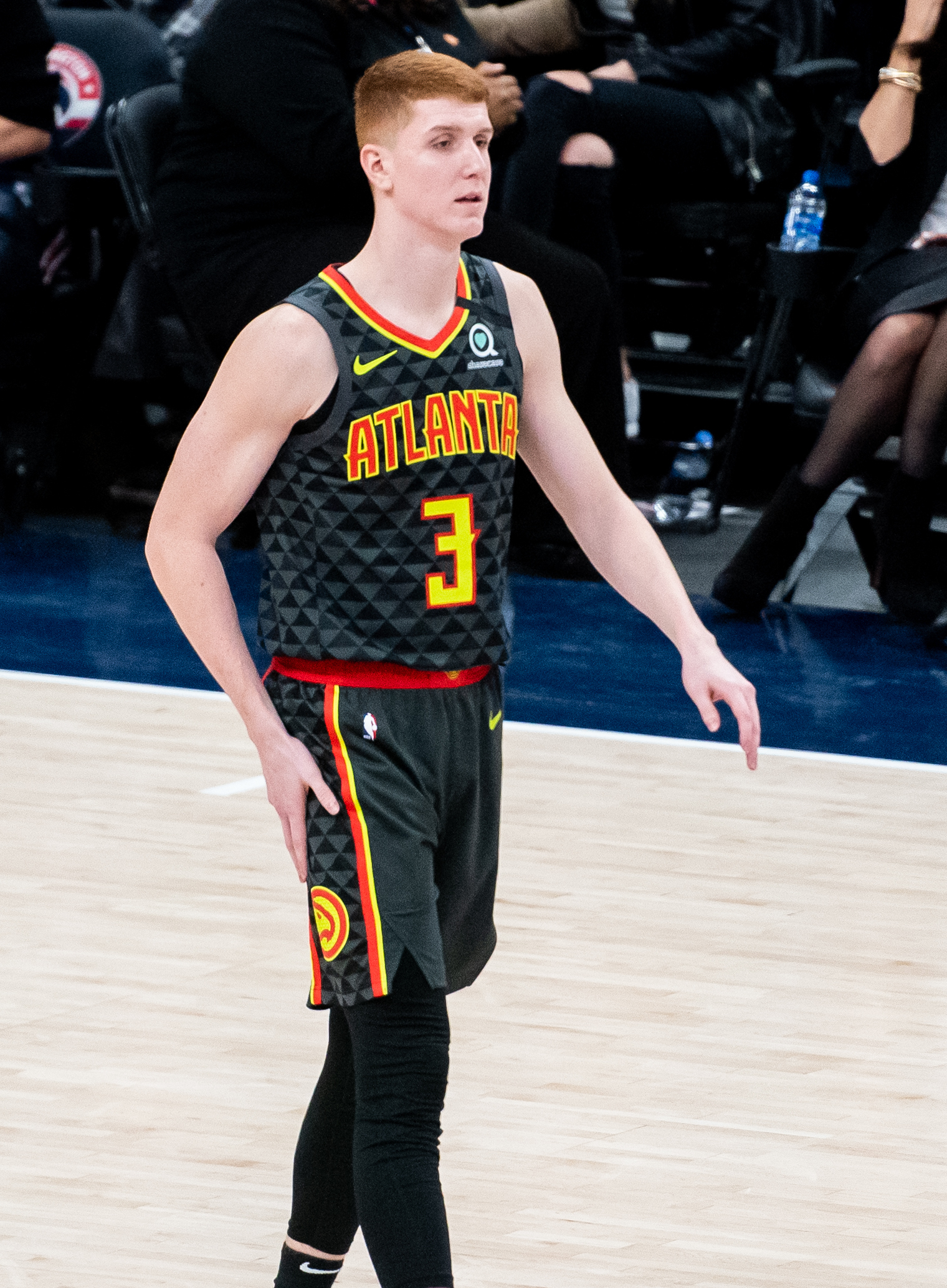 Alex Len and Kevin Huerter of Atlanta